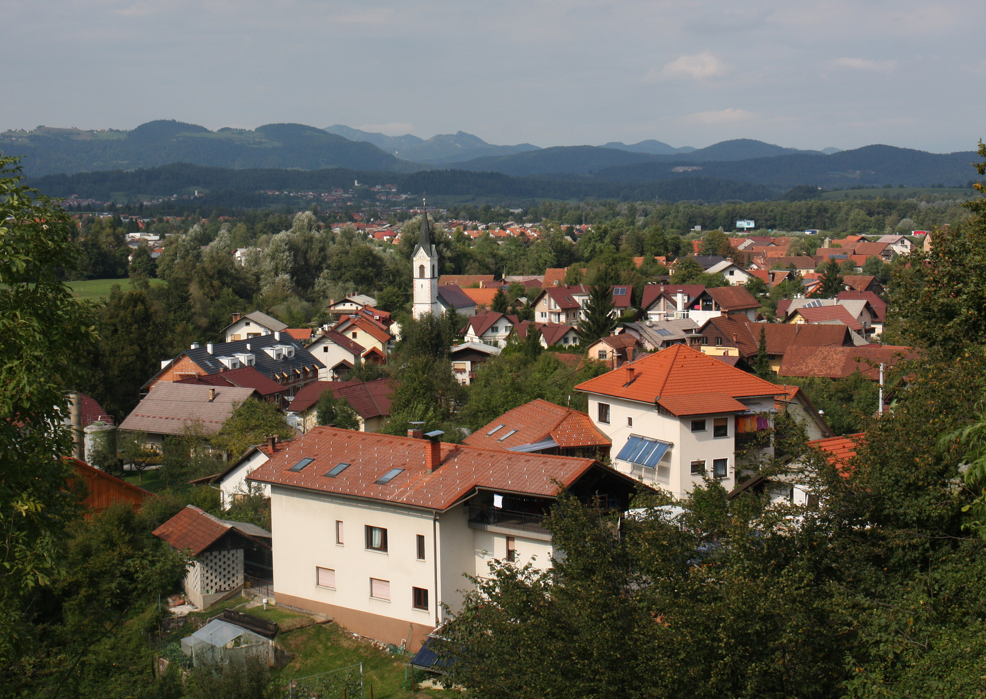 Center of Verd, Vrhnika Municipality, Slovenia, with the hamlet Janezova Vas in the background